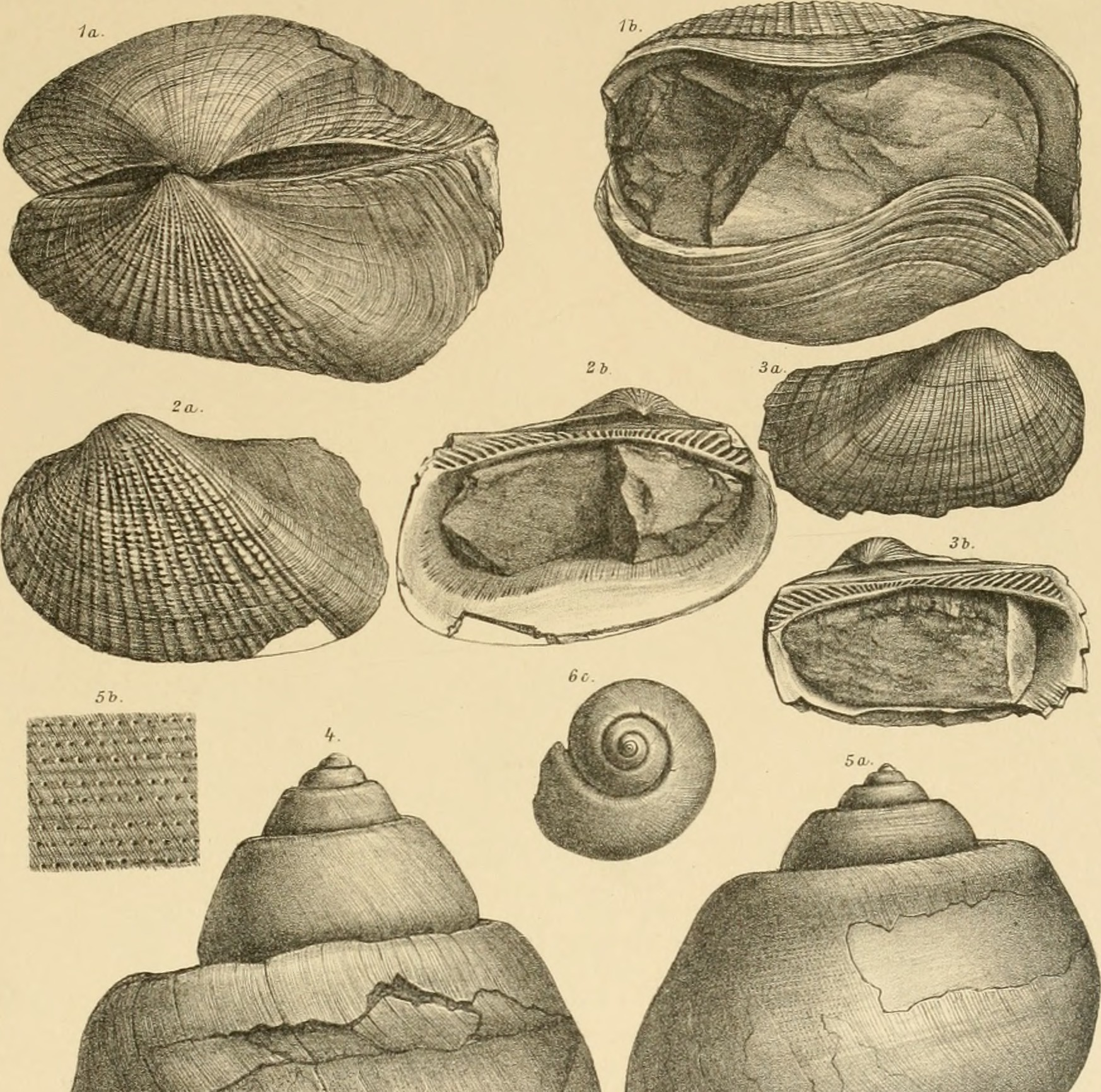 Title: Denkschriften der Kaiserlichen Akademie der Wissenschaften, Mathematisch-Naturwissenschaftliche Classe Identifier: denkschriftender64kais Year: 1897 (1890s) Authors: Kaiserl. Akademie der Wissenschaften in Wien. Mathematisch-Naturwissenschaftliche Klasse Publisher: Wien : Aus der Kaiserlich-K©niglichen Hof- und Staatsdruckerei Contributing Library: Harvard University, Museum of Comparative Zoology, Ernst Mayr Library Digitizing Sponsor: Harvard University, Museum of Comparative Zoology, Ernst Mayr Library Text Appearing Before Image: K.A.Penecke: MarmeTertiär-Fossilienl^ordgrieclienlands. Taf. I. Please note that these images are extracted from scanned page images that may have been digitally enhanced for readability - coloration and appearance of these illustrations may not perfectly resemble the original work.